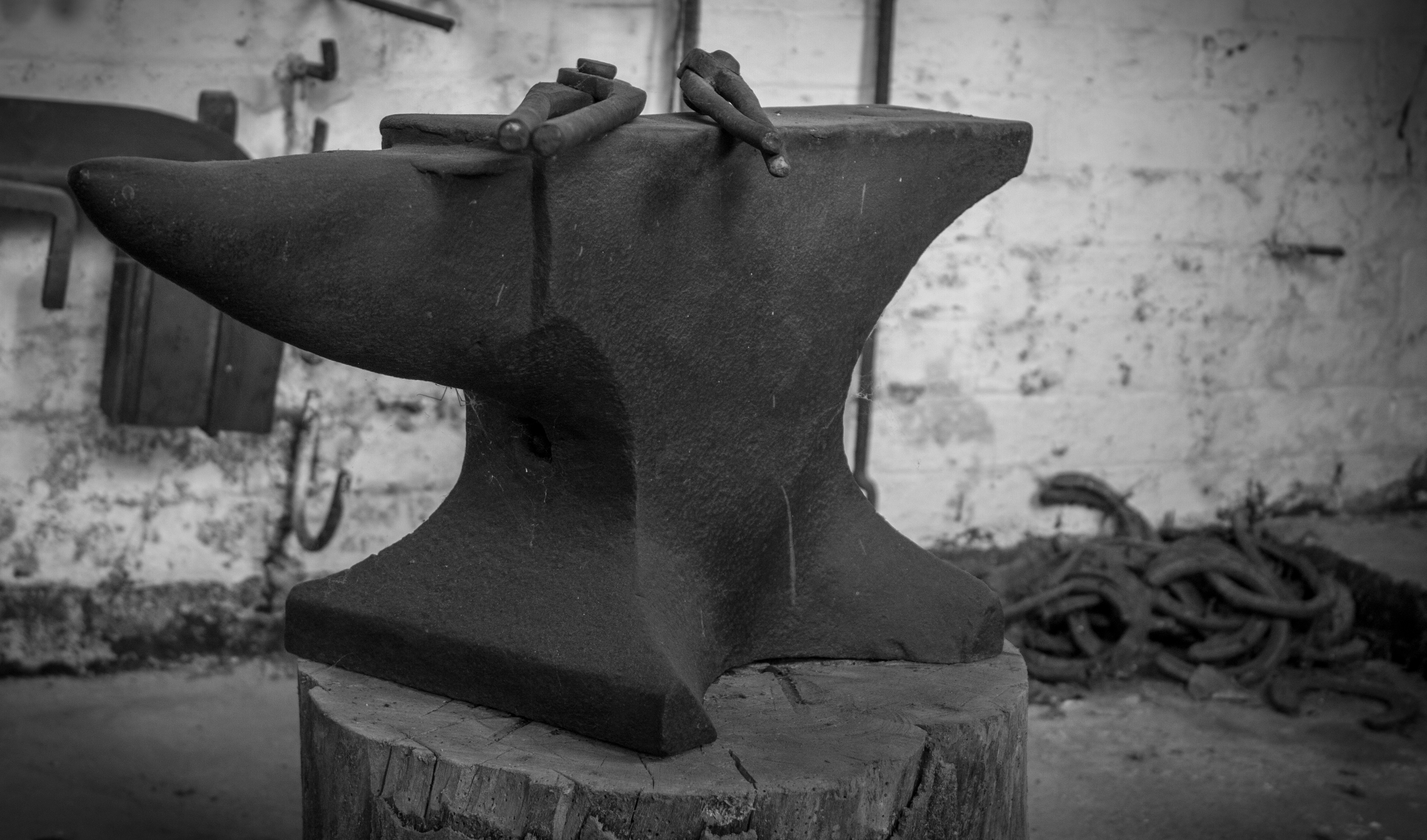 Blacksmith's Anvil